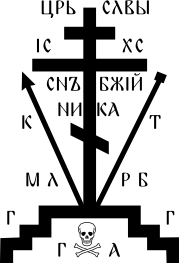 Russian Orthodox "Golgotha (Calvary) cross"